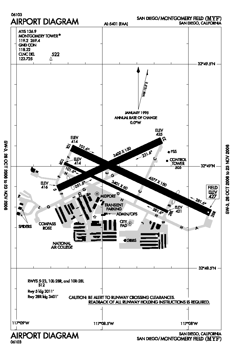 FAA airport diagram for MYF (Montgomery Field) in California, United States.